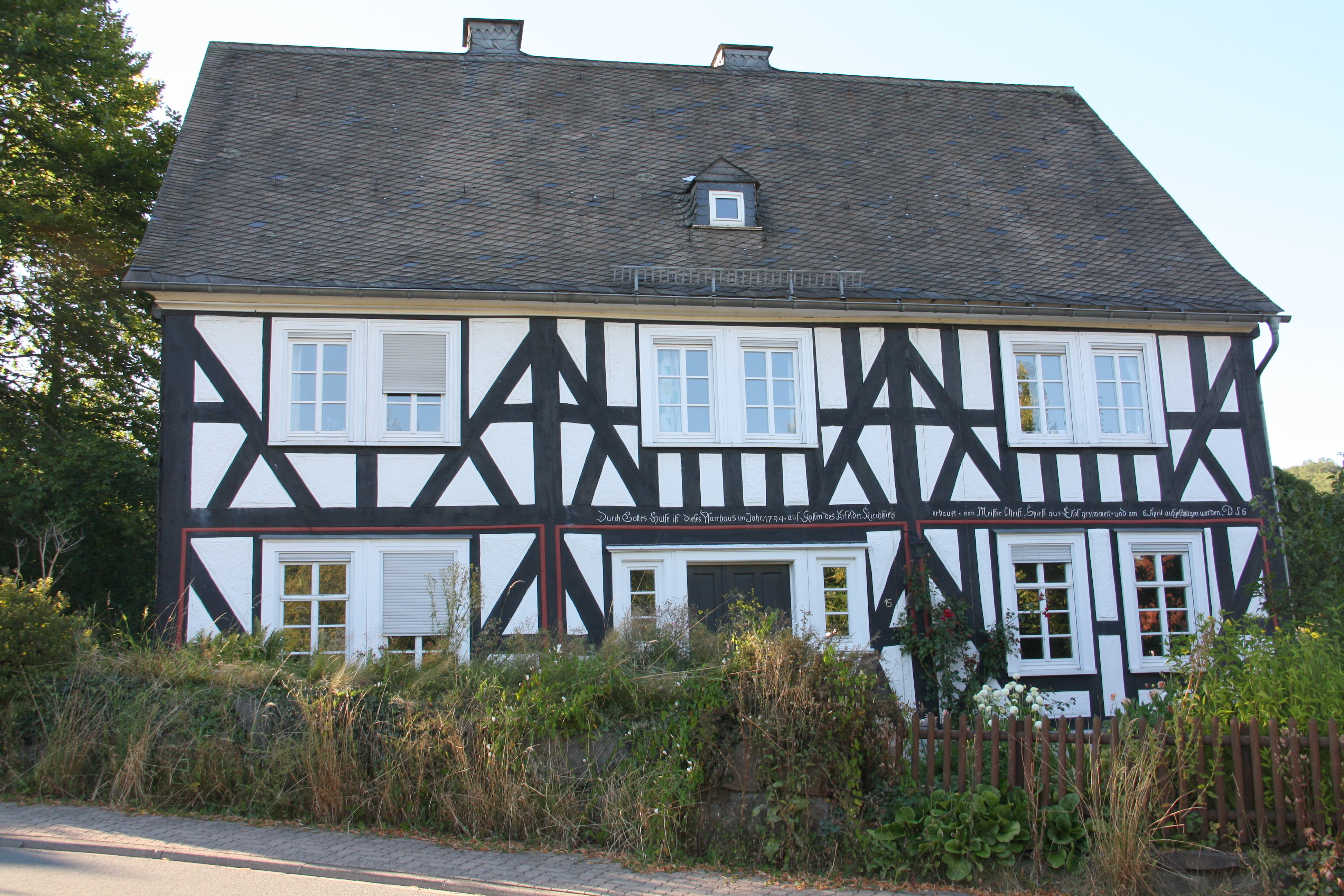 Arfeld